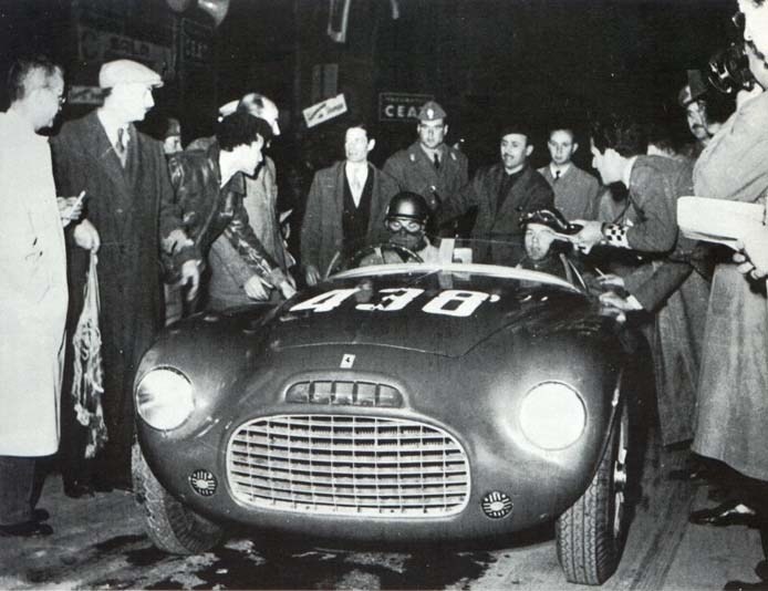 Piero Taruffi and co-driver Ettore Salami in the 1950 Ferrari 195 S Touring Barchetta s/n 0038M at Giro di Sicilia on March 31–April 1, 1950. They ended in 2nd place.[1]